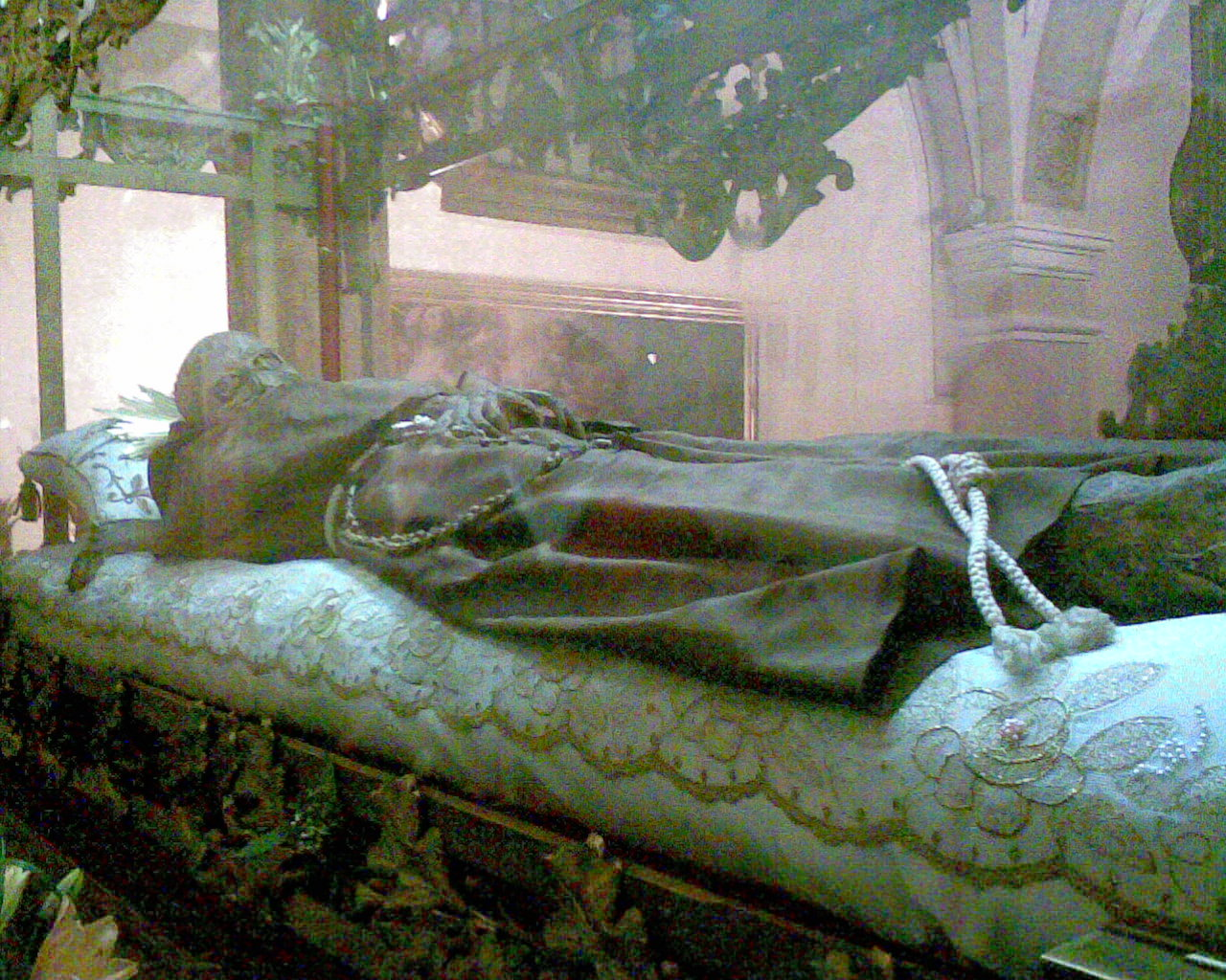 The corpse of Beato Giacomo in Bitetto (Italy).